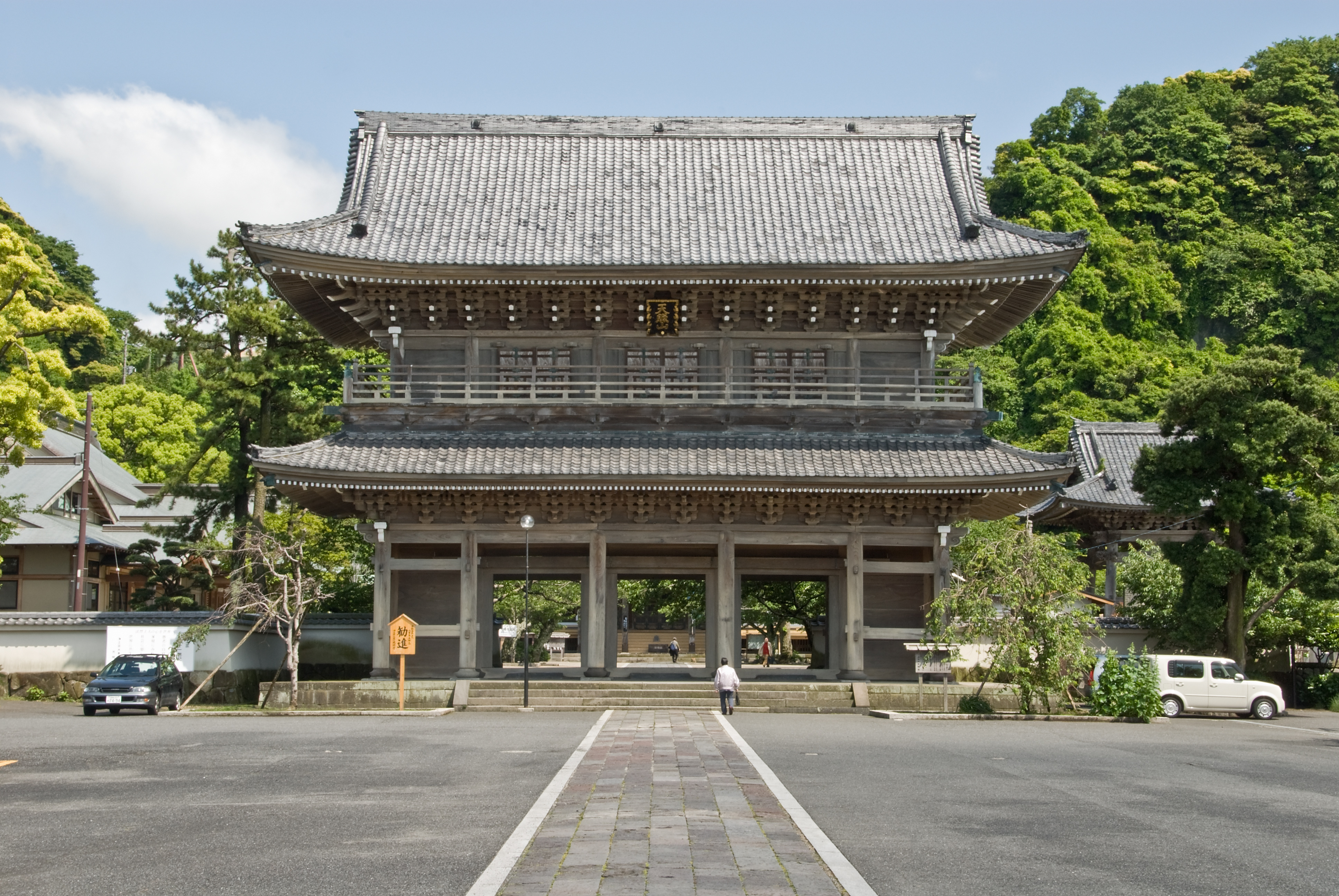 The Sanmon at Kōmyō-ji, a Jōdo temple in Kamakura.